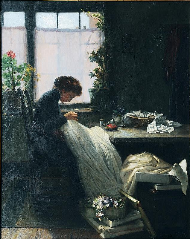 Sewing woman